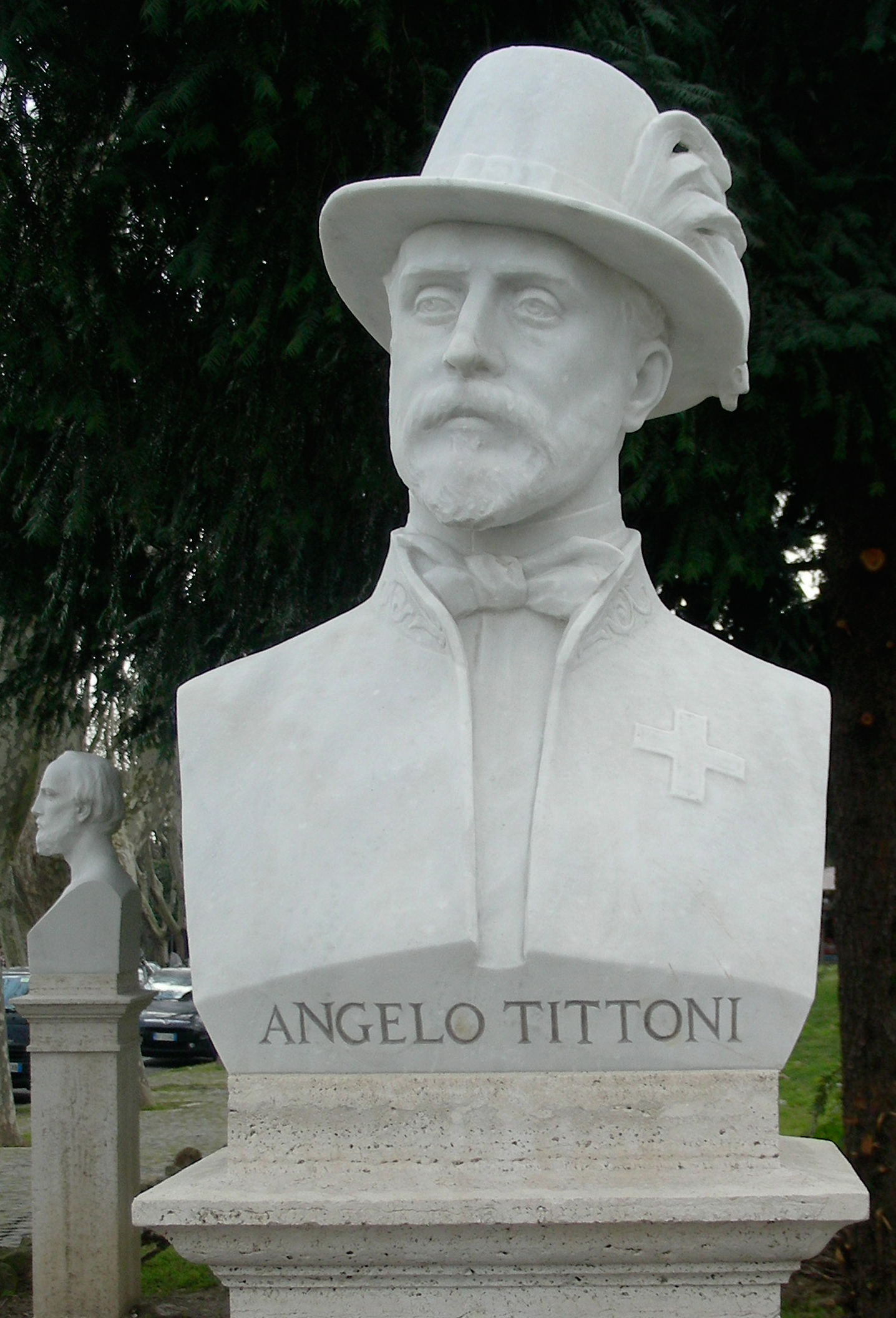 Rome, park of Gianicolo, bust of Angelo Tittoni († 1882), by Ettore Ferrari (1902)